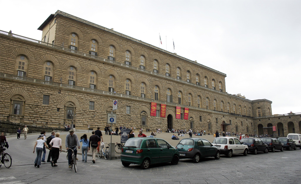 front of Pitti Palace